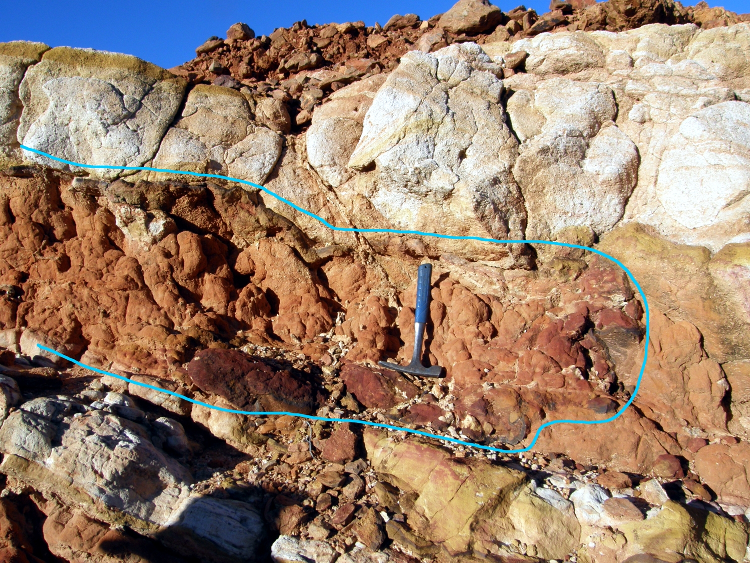 Paleao-Rollfront at Dead Tree Creek, Mt. Painter Gebiet, South Australia